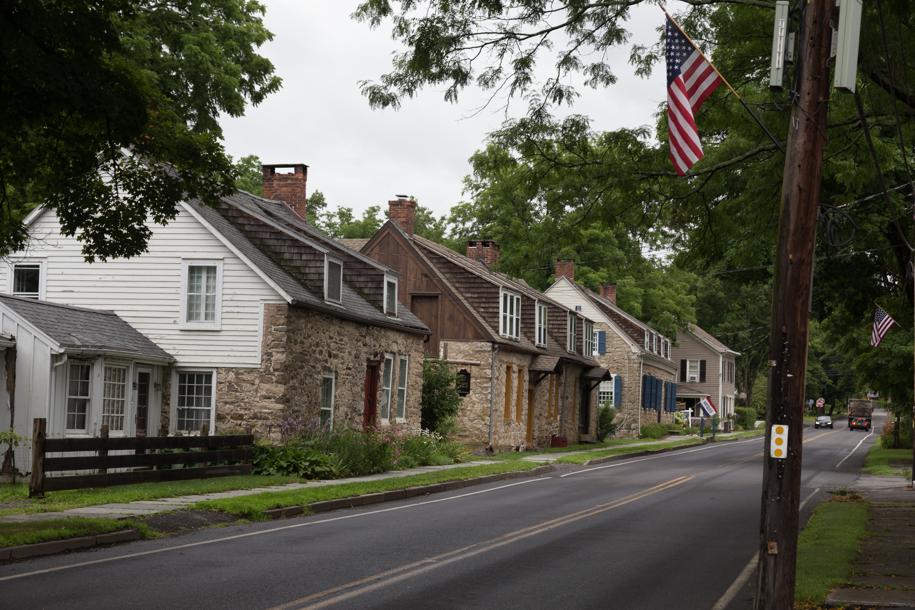 Historic homes along Main street, Hurley, New York